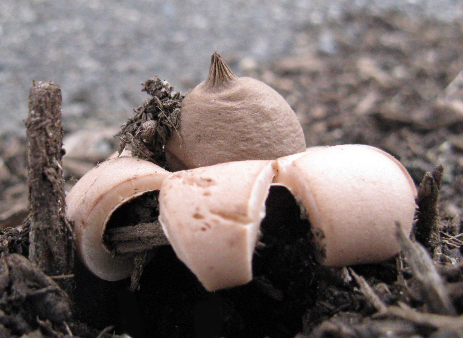 Geastrum sp. Location: Hanover, Grafton Co., New Hampshire, USA